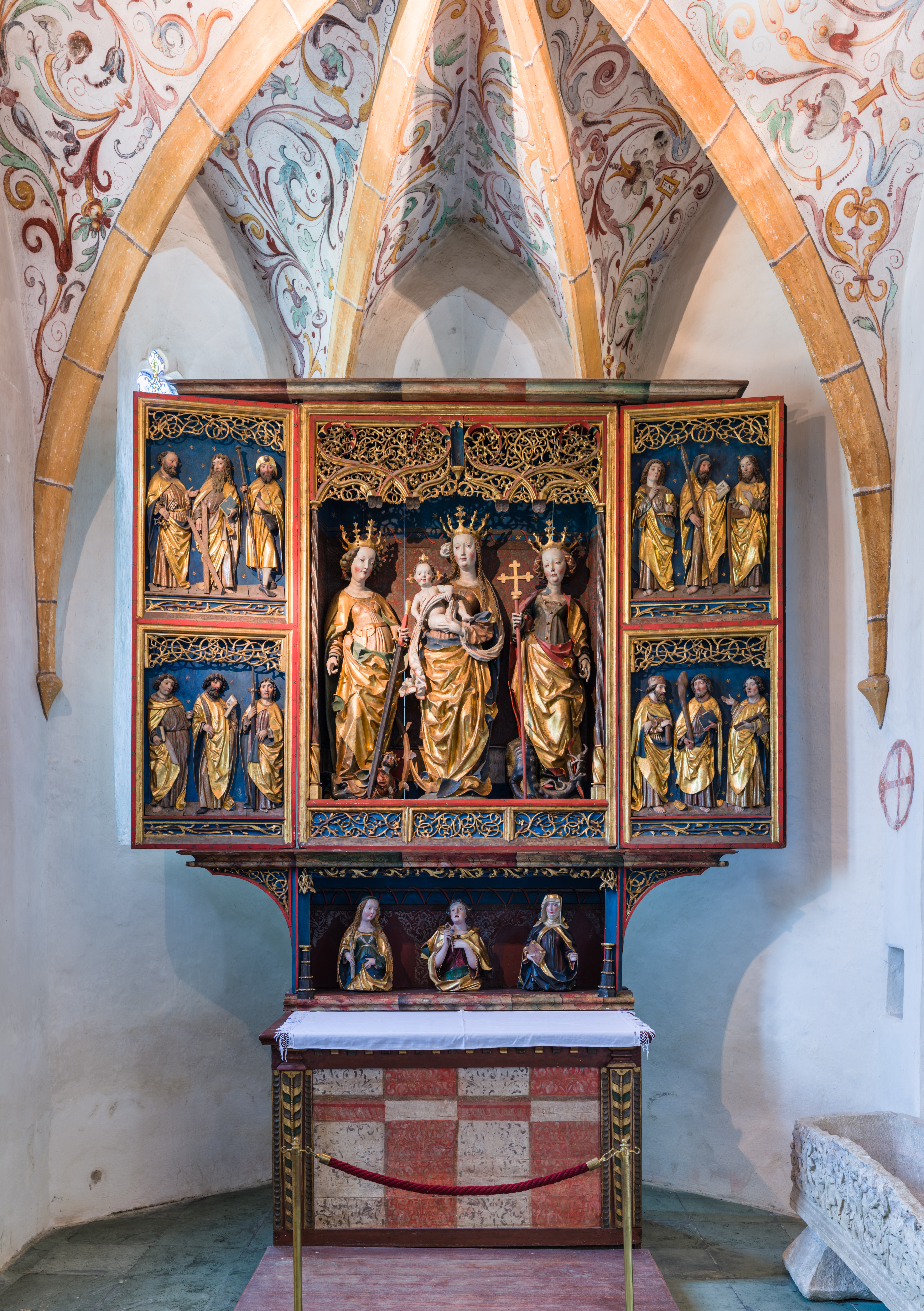 Winged altar at Ossiach Abbey Church, Carinthia, Austria. Anonymous master of the elder Villach Workshop, around 1505.